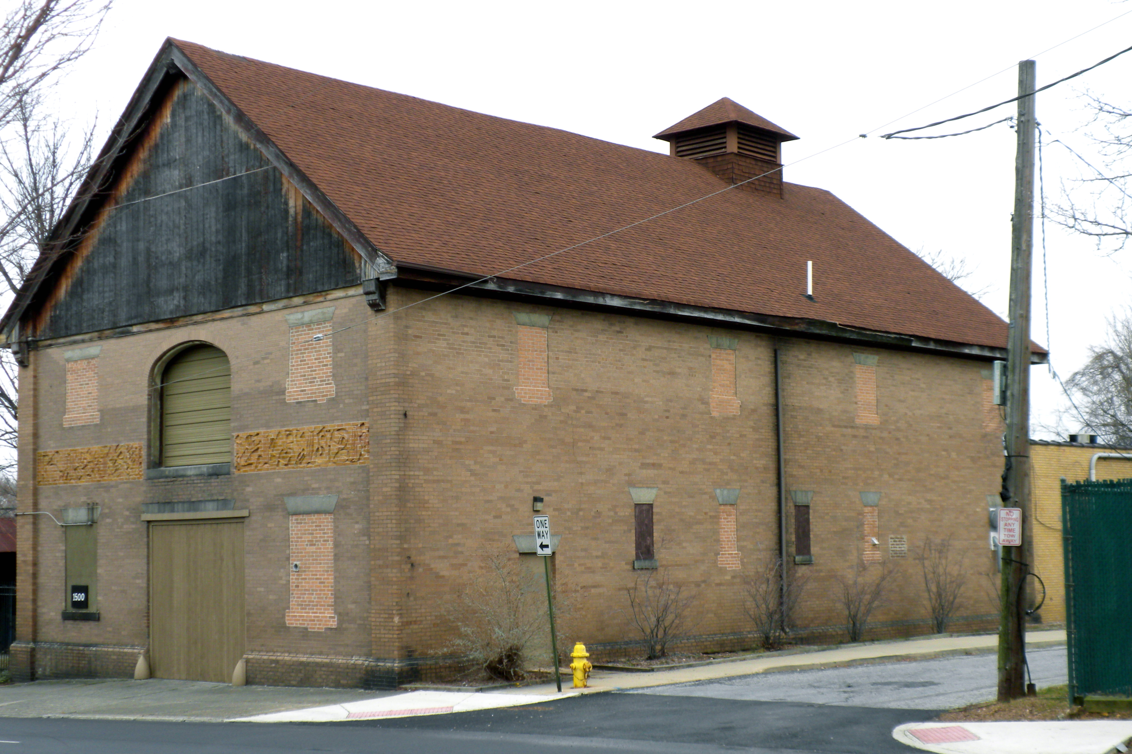 Building in the East Brandywine Historic District. This building is at 1500 Walnut Street (US 13) in Wilmington, Delaware and is now used as a pottery studio, but was likely a warehouse in the nineteenth century, used by the nearby flour mills.